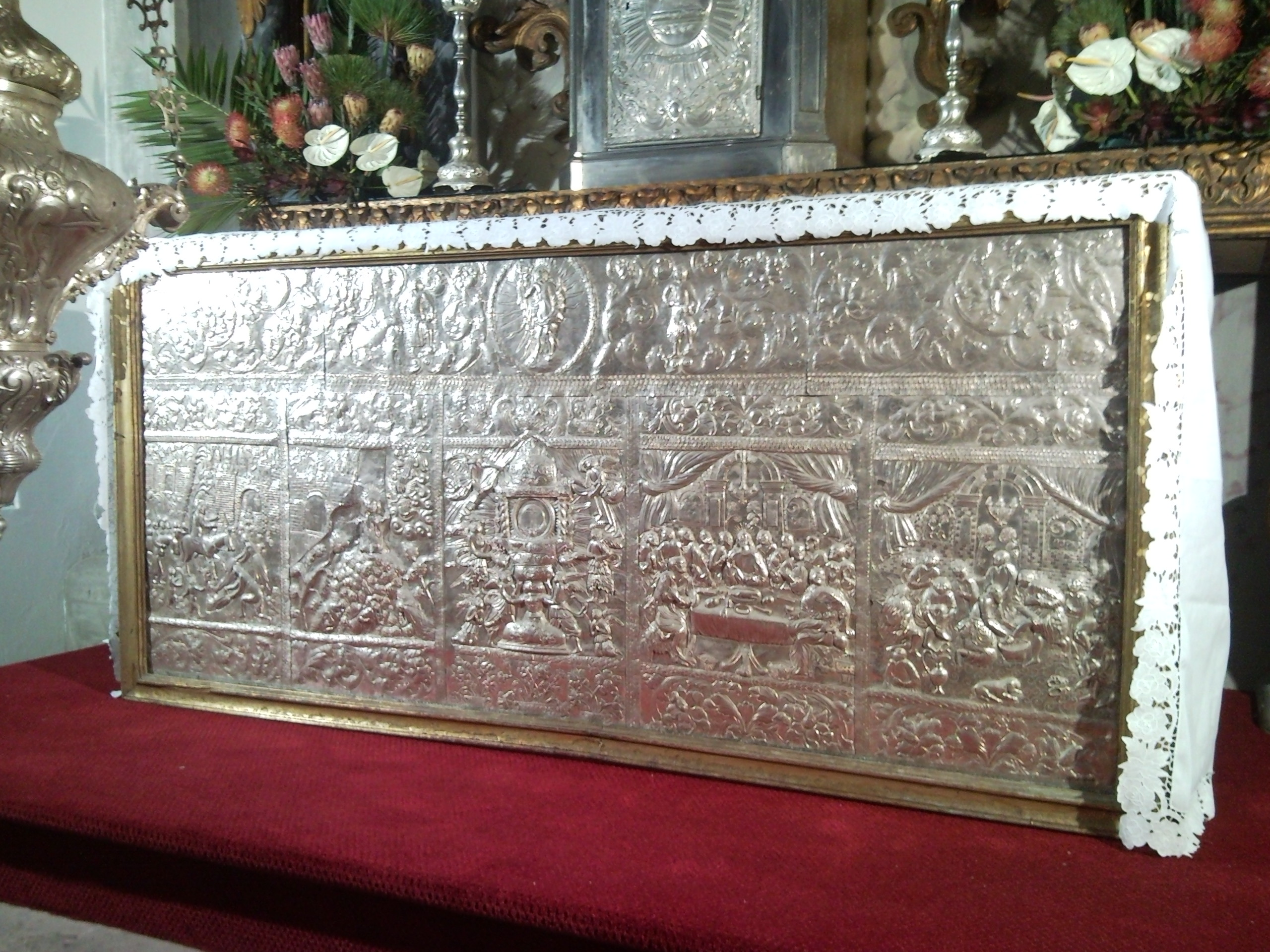 Front panel of the main alter (140 x 90 cm), with eucharistic iconography from the 18th century, Sé Cathedral, Sé, Angra do Heroísmo, Terceira (Azores), Portugal